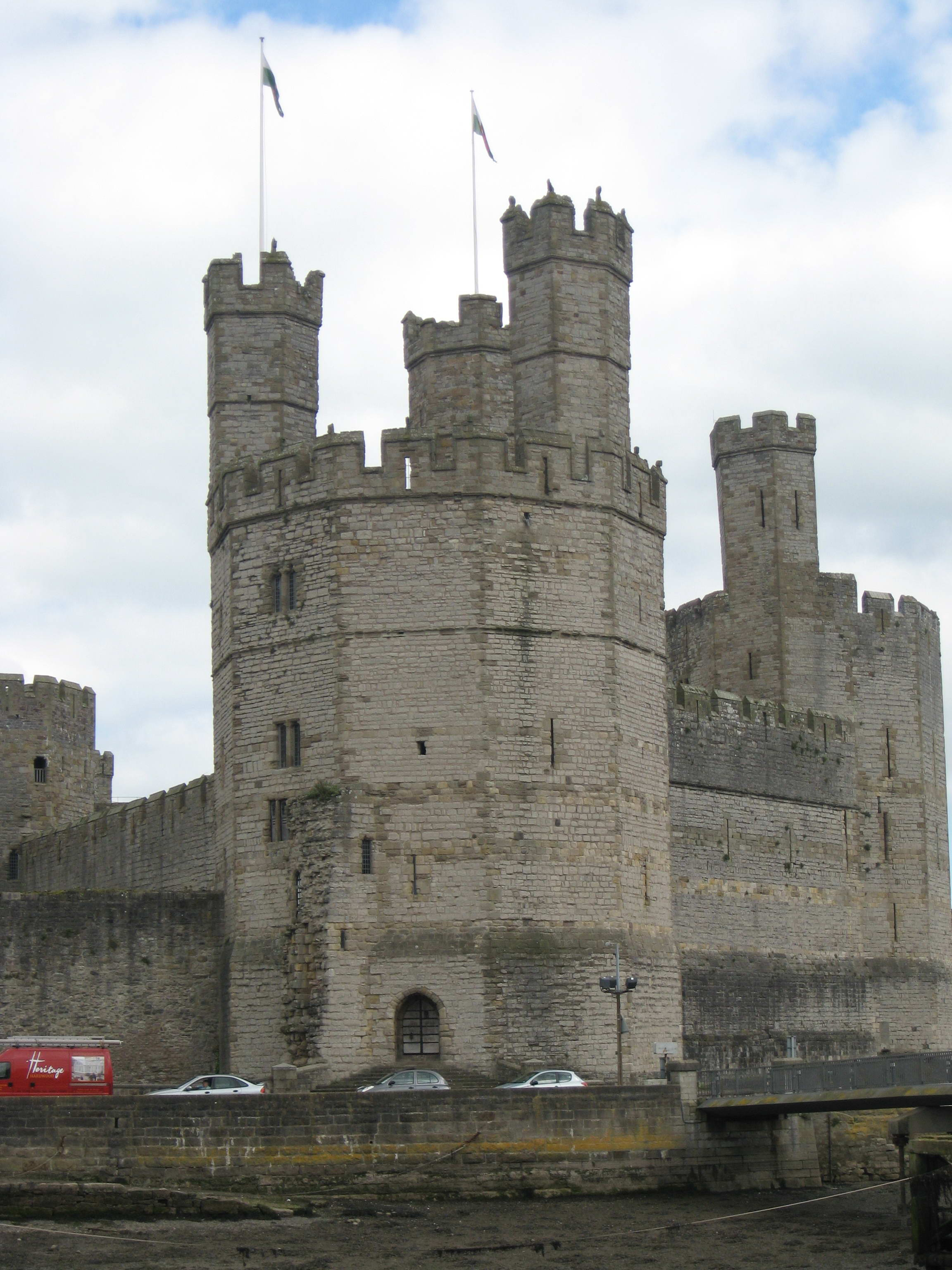 Caernarfon Castle:The Eagle Tower